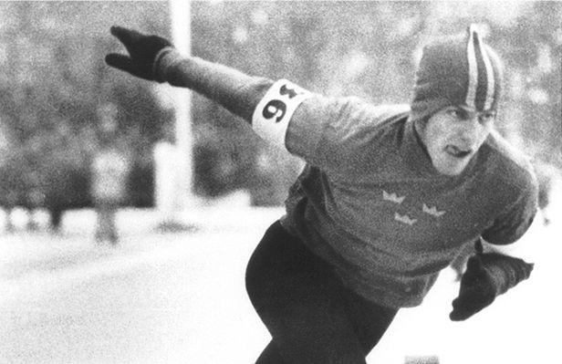 Speed skater Jonny Nilsson won one of Sweden's three gold medals in the 1964 Winter Olympics in Innsbruck. He won the 10000 m event.